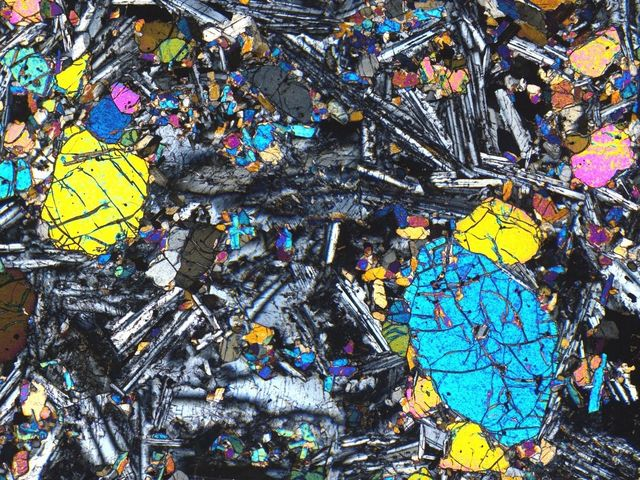 Thin section of Hillhouse Gabbro from near Dundonald in Scotland. A photomicrograph of a petrographic section of the local rock, an analcime gabbro of Carboniferous age. The rock slice has been cut and lapped to 30 micrometres thickness, then photographed by a high-resolution camera attached to a polarising microscope. The false colours are caused by retardation of the polarised light which travels at different speed depending upon its alignment with the crystal axes. Perfectly isotropic materials are completely black, as are crystals whose axes align with the planes of polarisation. The colours enable geologists to identify the minerals of the rock - here pyroxene and olivine are bright, while plagioclase feldspar is humbug-striped. The length of the large, blue crystal is around 1.6mm. The section was prepared by the photographer in his own workshop/kitchen from material collected from Hillhouse Quarry (latitude 55:34.4379N, longitude 4:36.9120W).